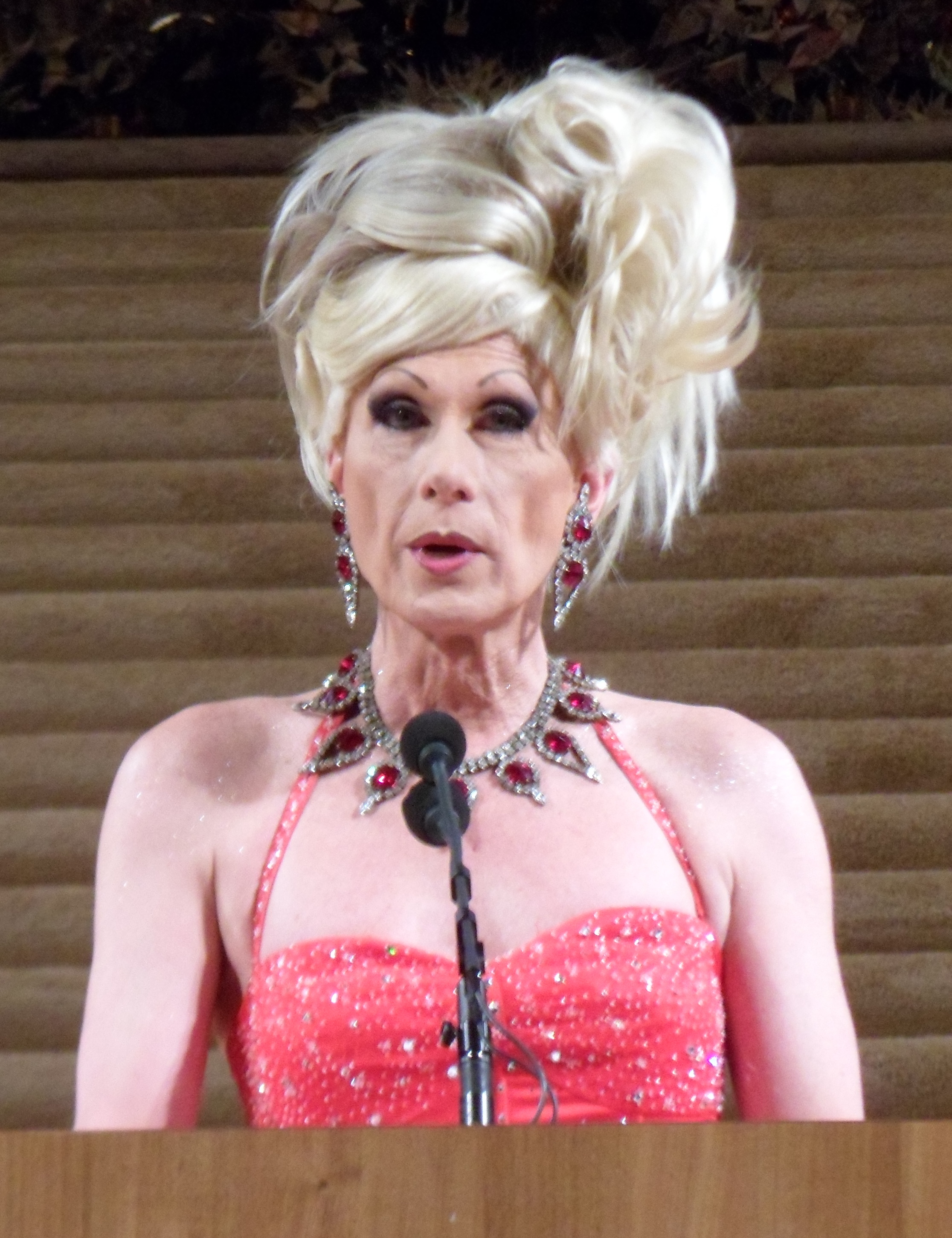 Donna Sachet at the lighting ceremony for the Rainbow World Fund's World Tree of Hope on Tuesday, December the 10, 2013 in San Francisco City Hall